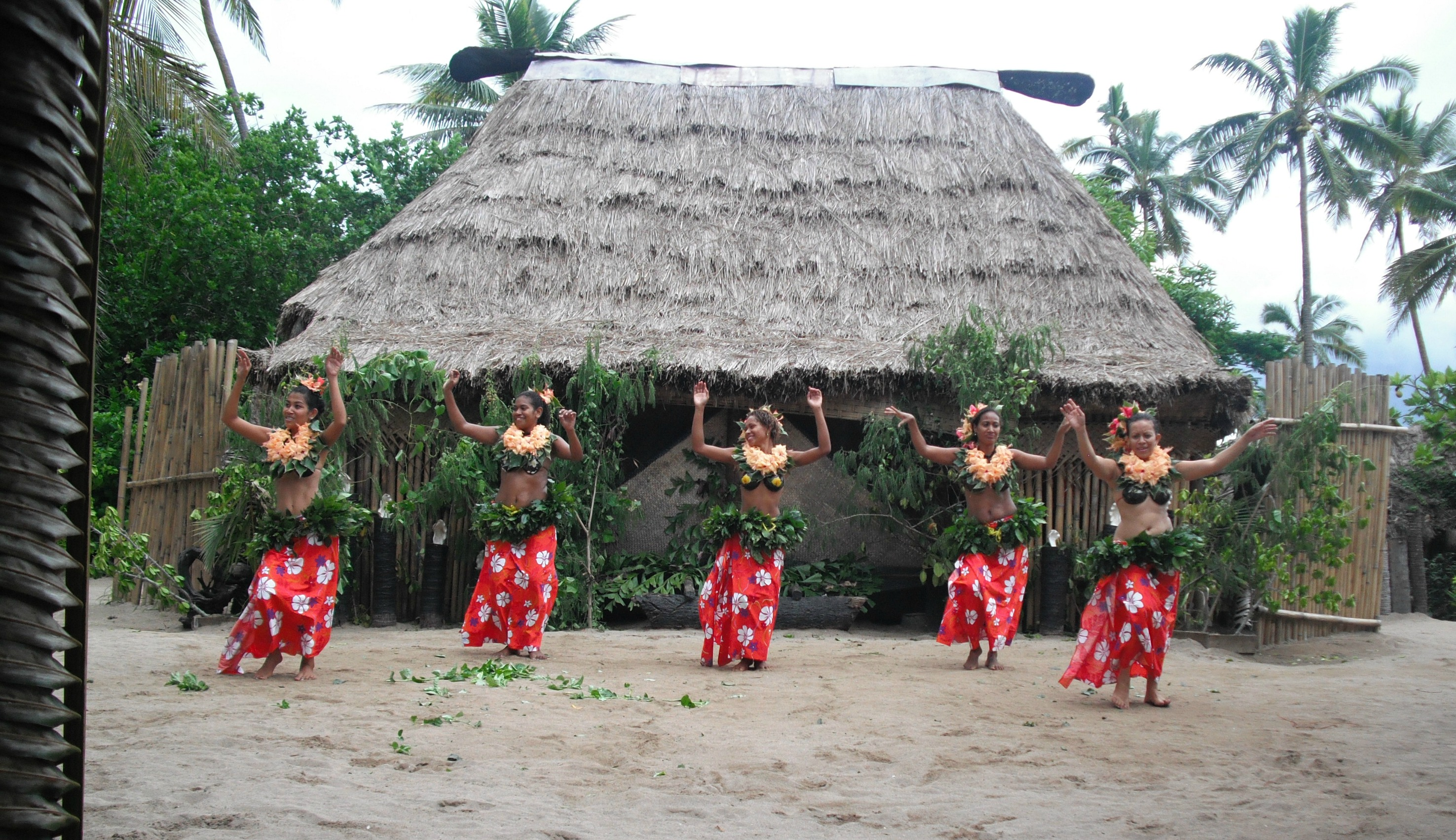 I took this photo on an island visit to the Mamanuca Islands in Fiji in February 2011.